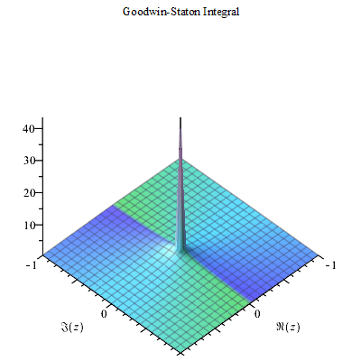 Goodwin-Station integral Maple complex 3D plot